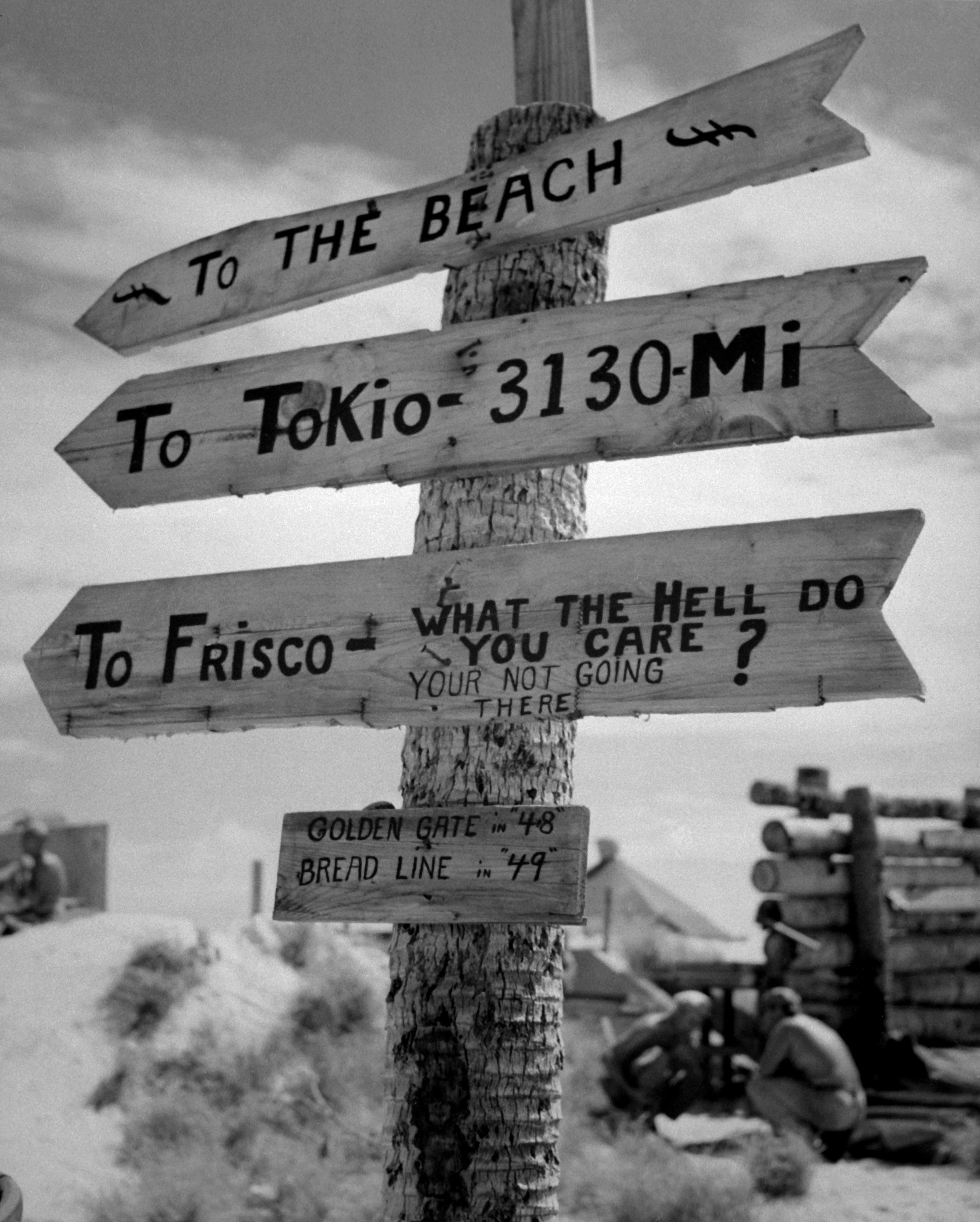 Sign on Tarawa illustrates Marine humor and possible lack of optimism as to duration of war. June 1944. NARA FILE #: 080-G-476304 WAR & CONFLICT BOOK #: 1197 Camera Operator: LT. COMDR. CHARLES FENNO JACOBS Date Shot: 1 Jun 1944